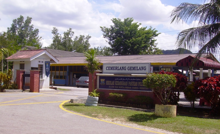 the picture was taken by Darul Ridzwan Azhar by using Vivitar 5MP-9Q3